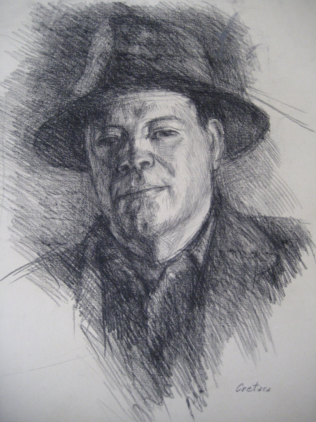 Self portrait